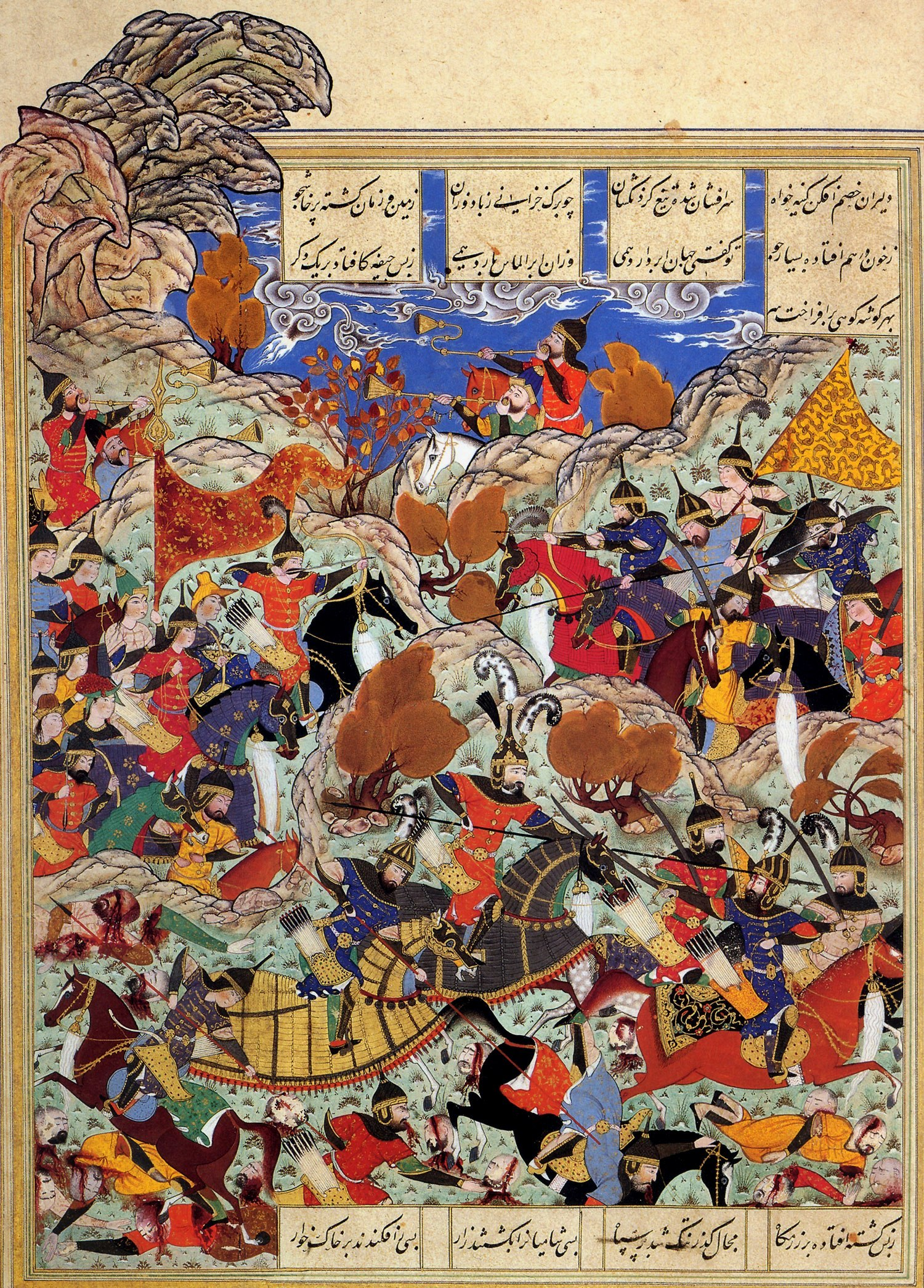 Battleground of Timur and Egyptian King, conserved in Golestan Palace, Tehran, Iran.